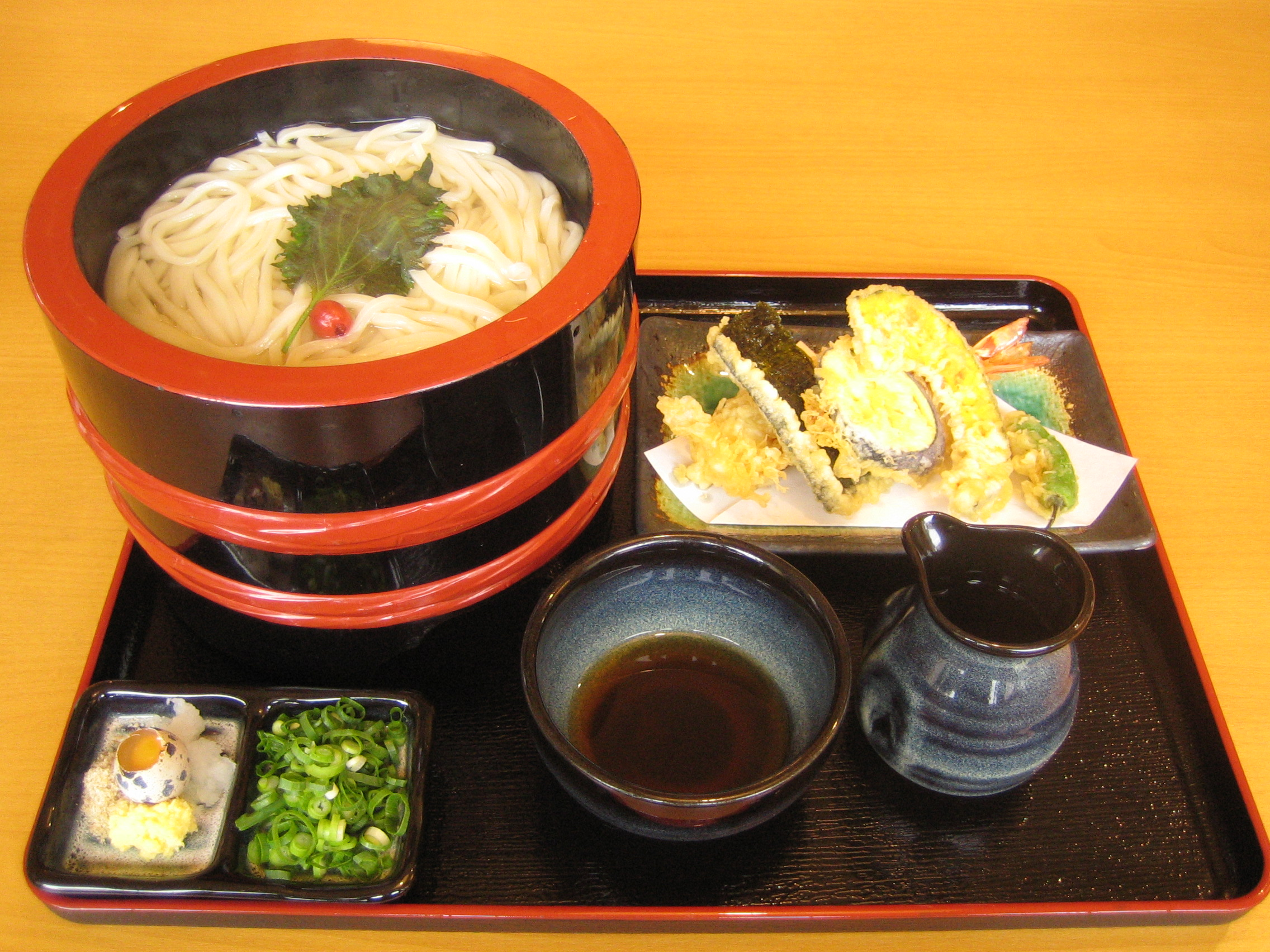 Kama-age Udon (釜揚げうどん)